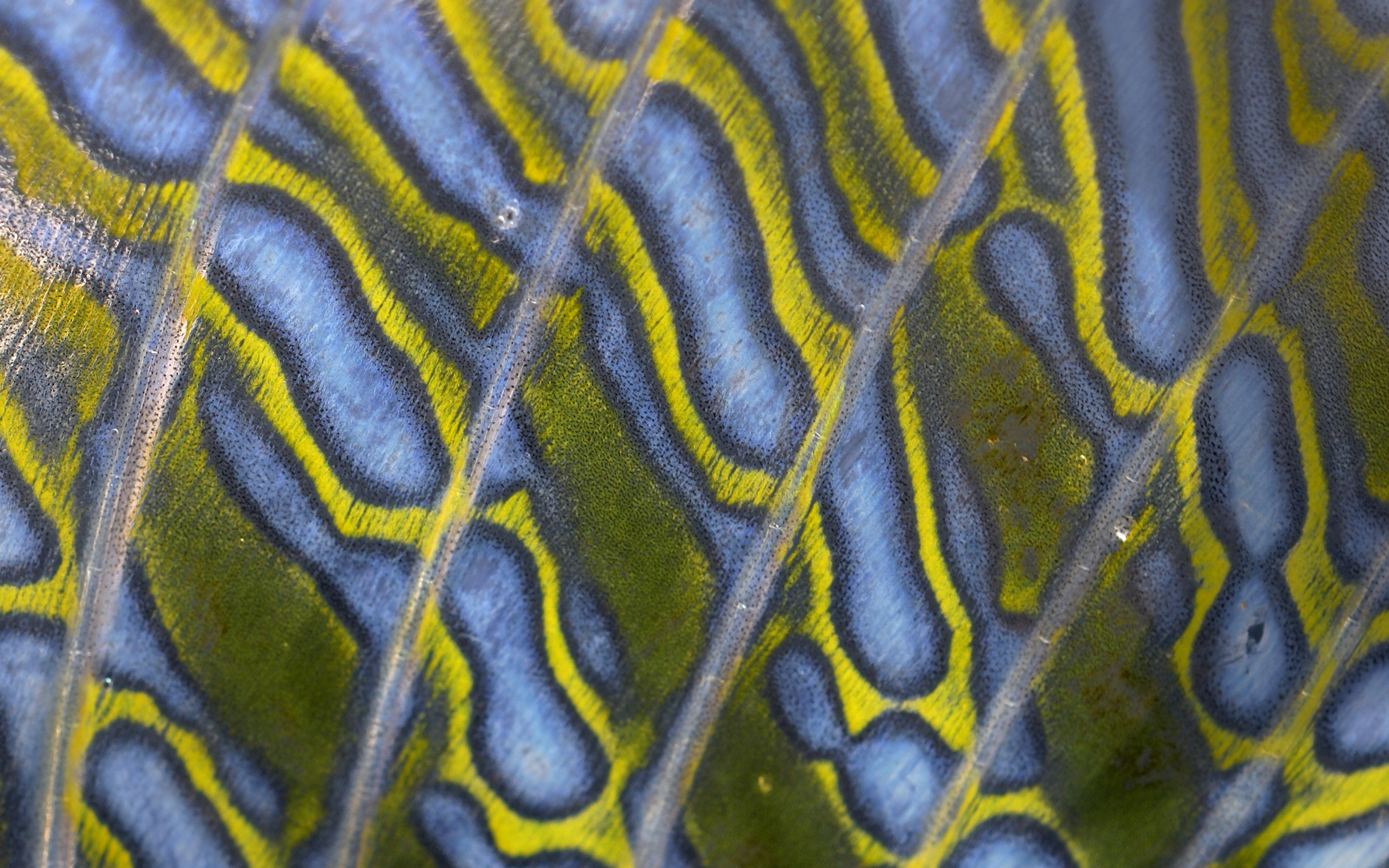 Close-up of the dorsal fin of a male reticulated dragonet